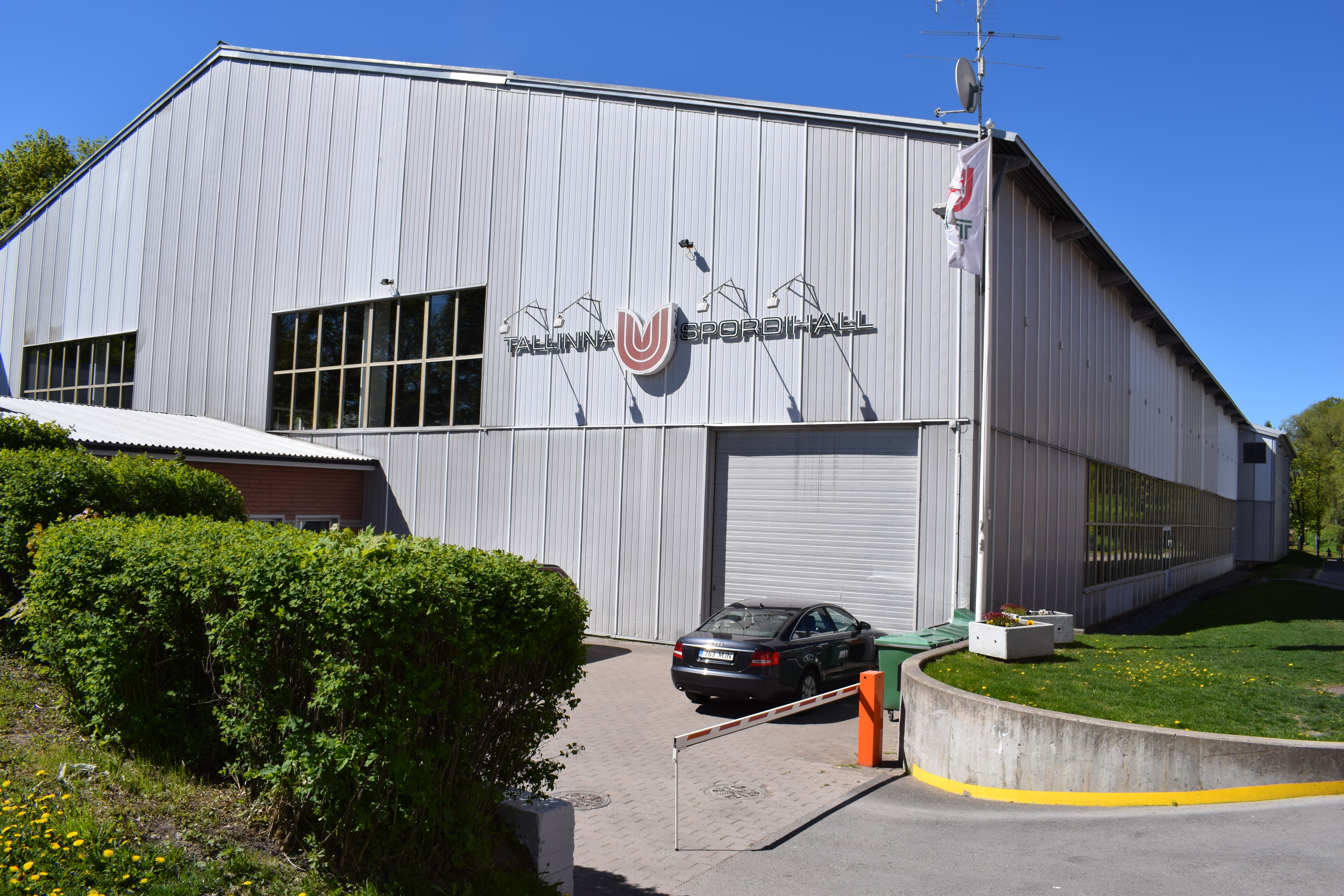 Herne 30, Tallinn